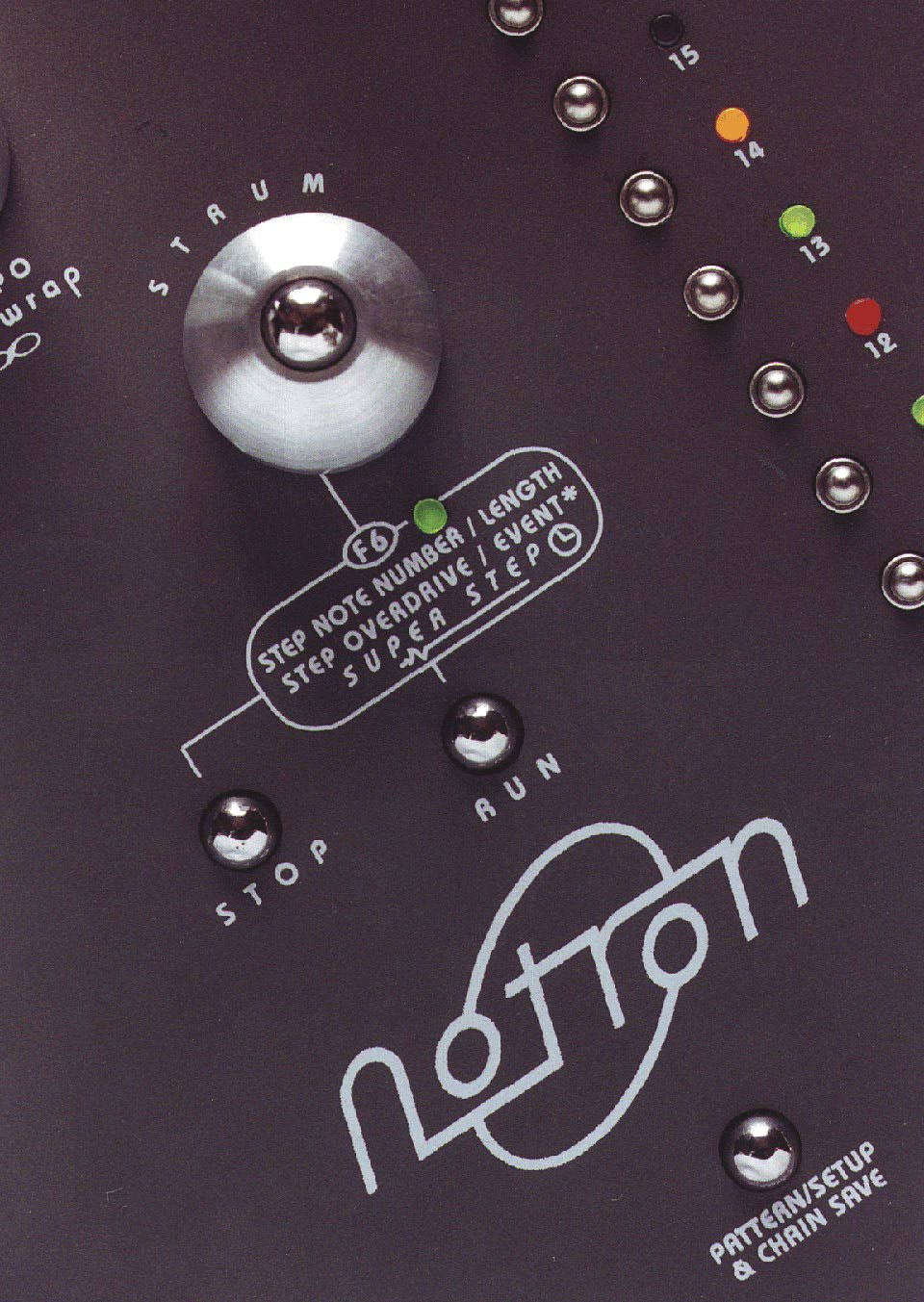 Loaded by Keith Worden from free sources provided by Concourse Systems